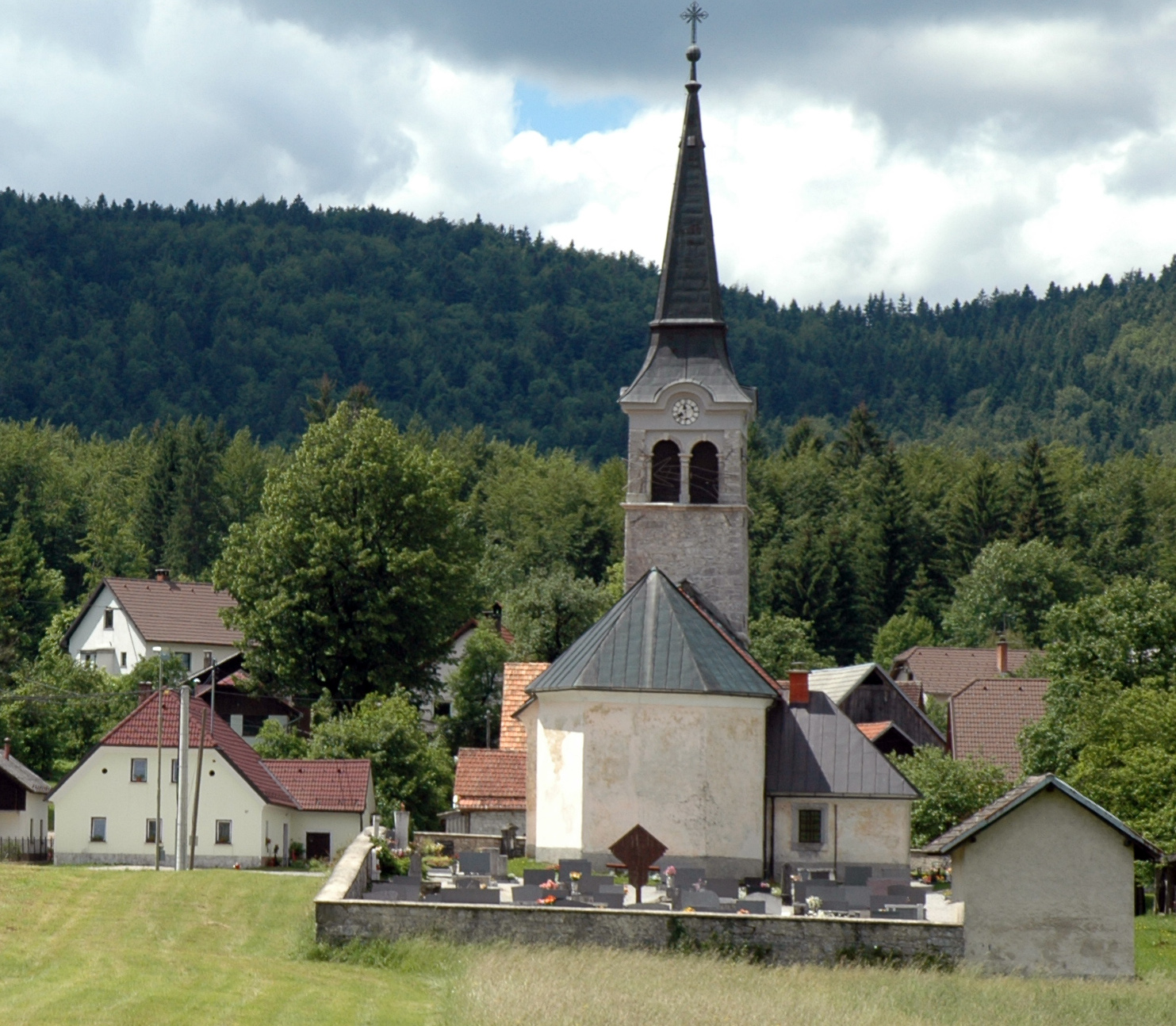 Church and birthplace of Frank Troha Rihtarjev in Babno Polje, Slovenia.